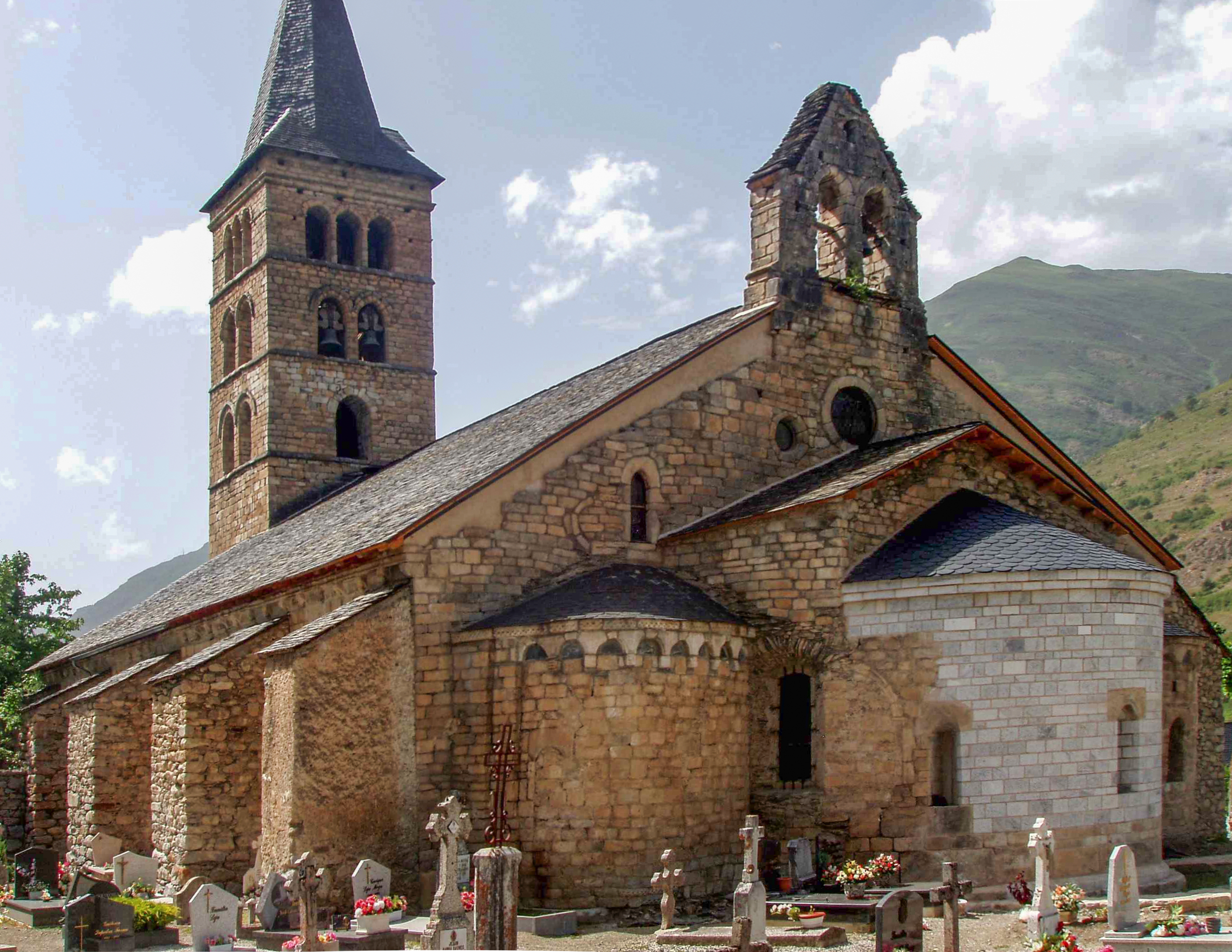 Roman Church in Arthies, Vall de Aran, Spain